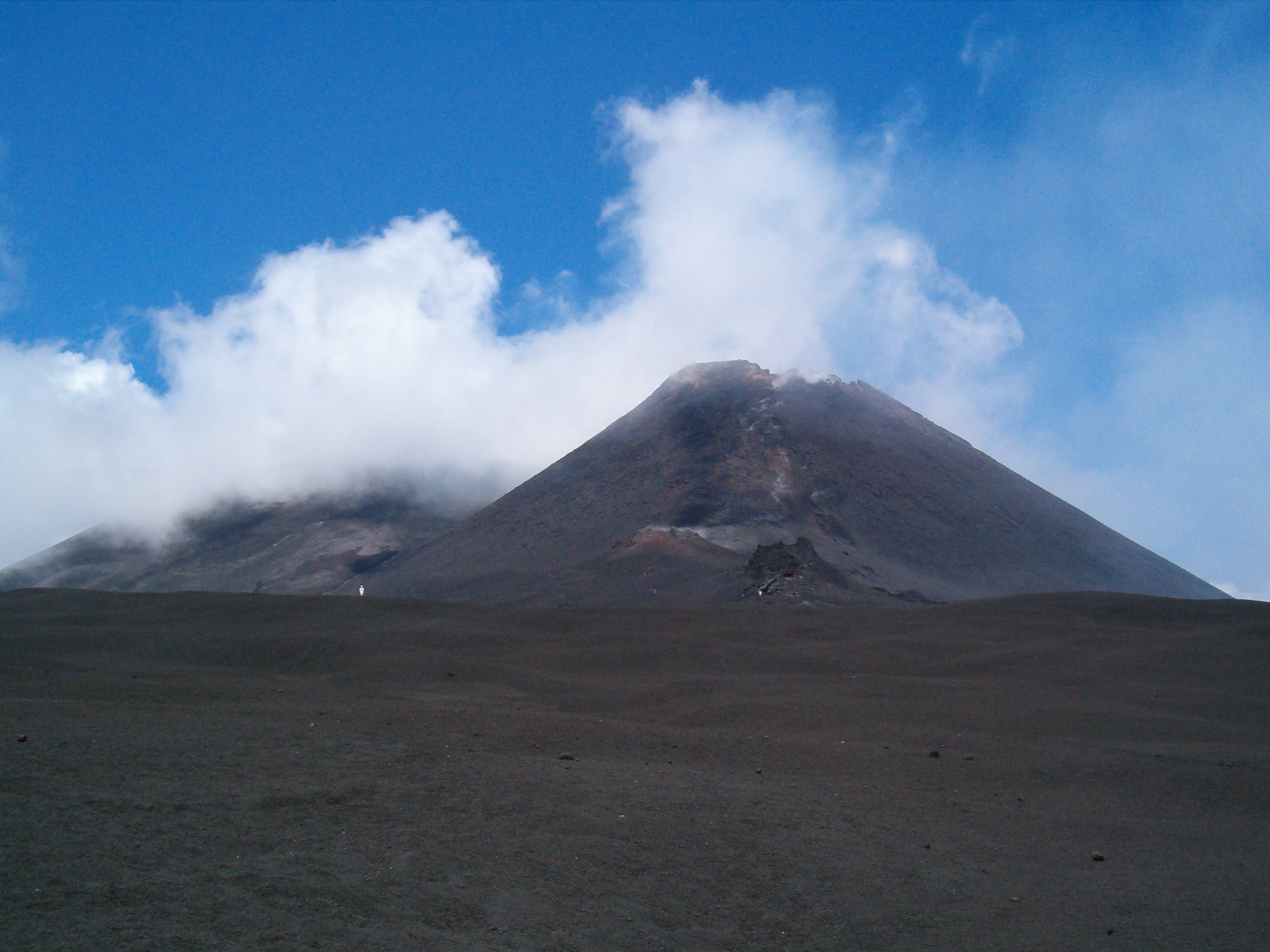 Parasitic cone on the Mount Etna.